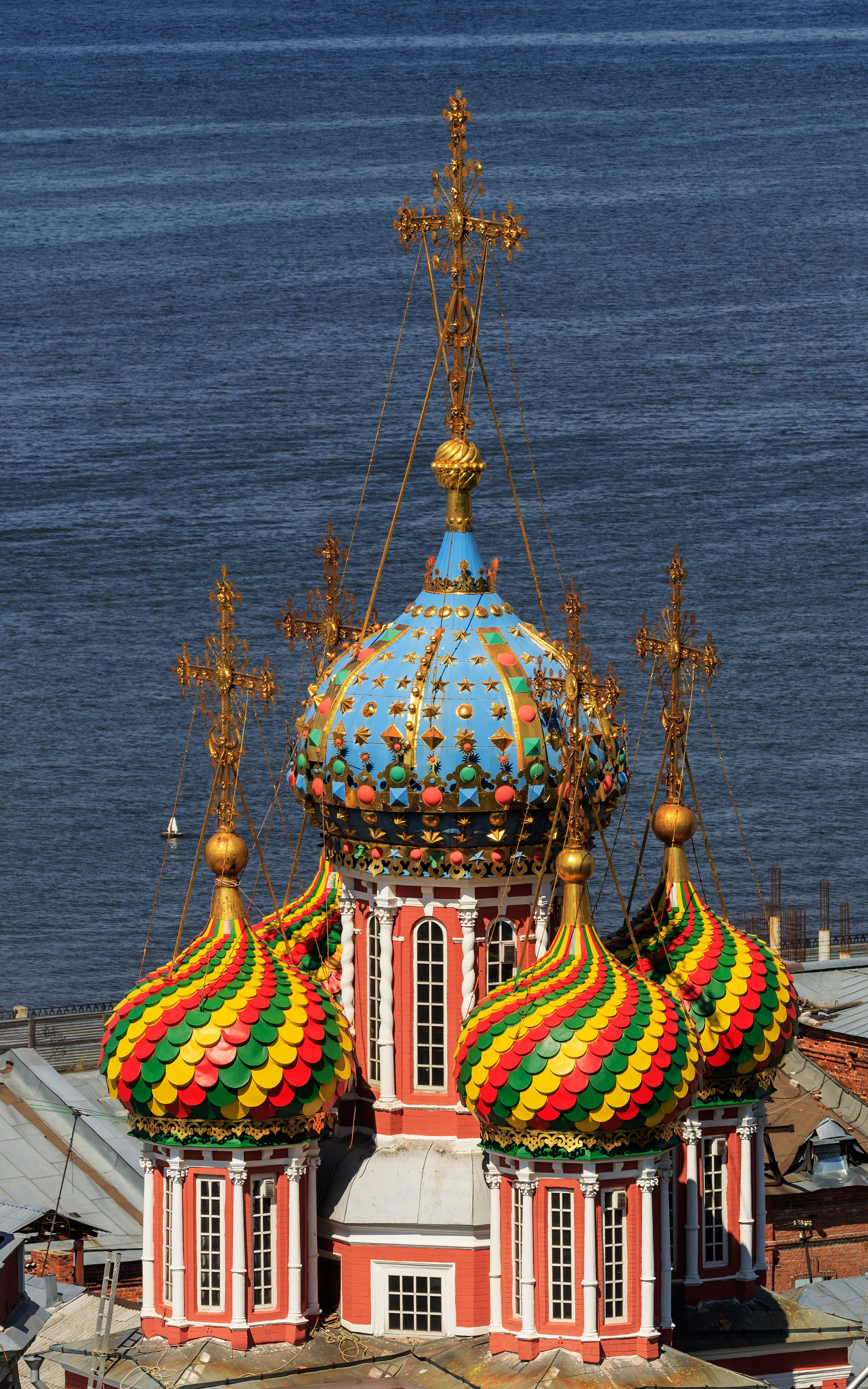 Stroganov Church (view from Fedorovskogo Embankment) in Nizhny Novgorod, Russia